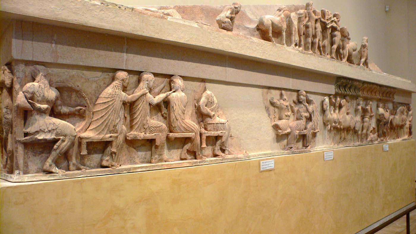 Treasury of the Siphnians. Archaeological museum of Delphi.